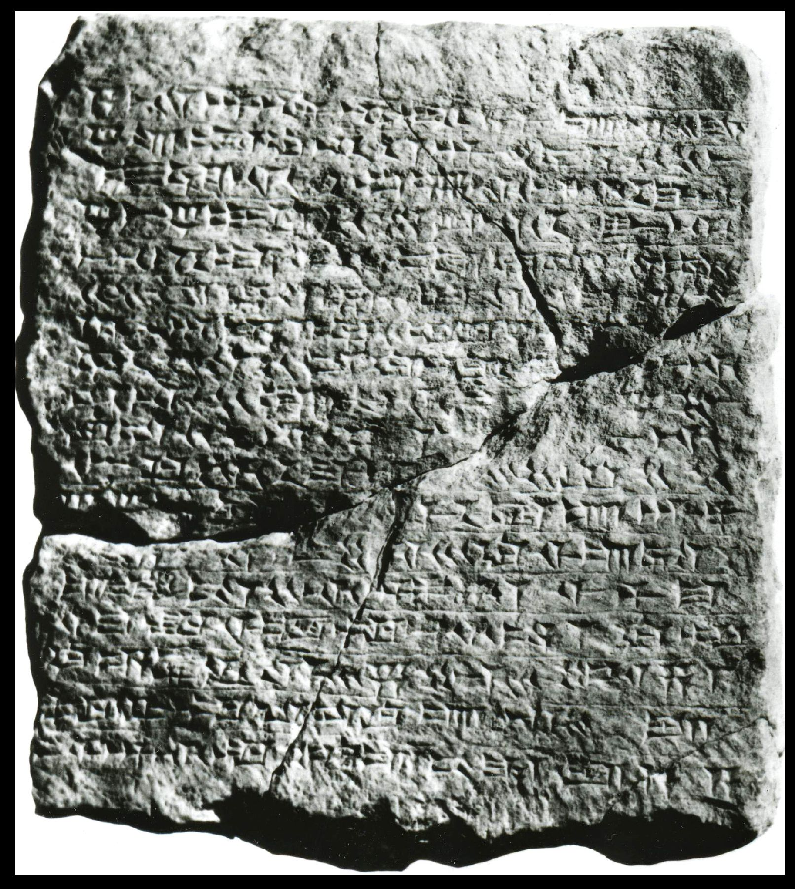 In four pieces, the inscription features the name of Assurbanipal.